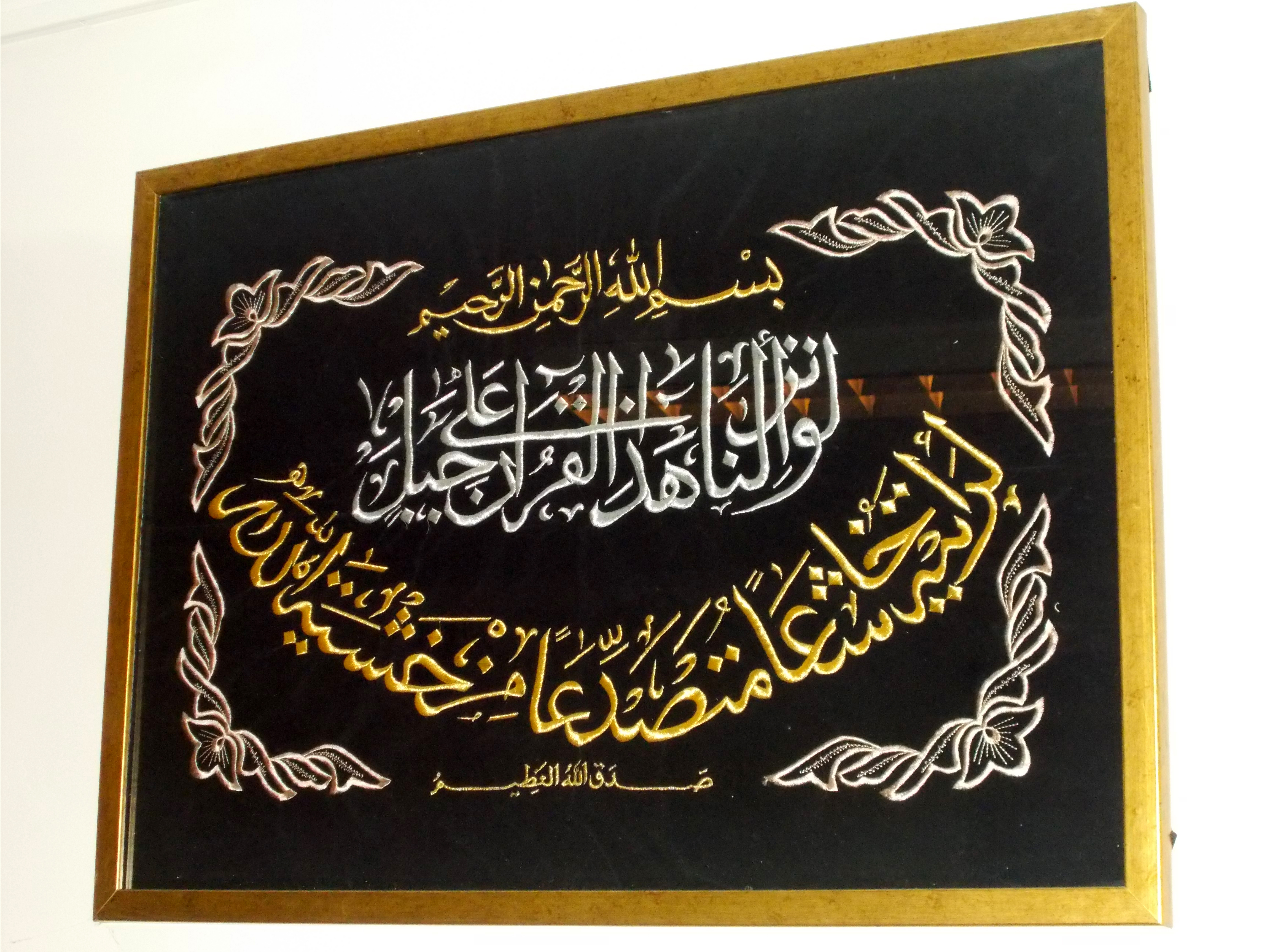 Arabic calligraphy in the Islamic Center Kraków